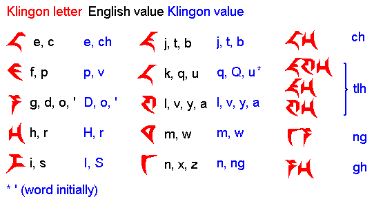 The Klingon alphabet as seen on the Fleer/Skybox trading cards, also seen on the Star Trek series (et al.). This image was created using a font made by me, based on Klingon writing images made by Paramount Pictures. Runic code